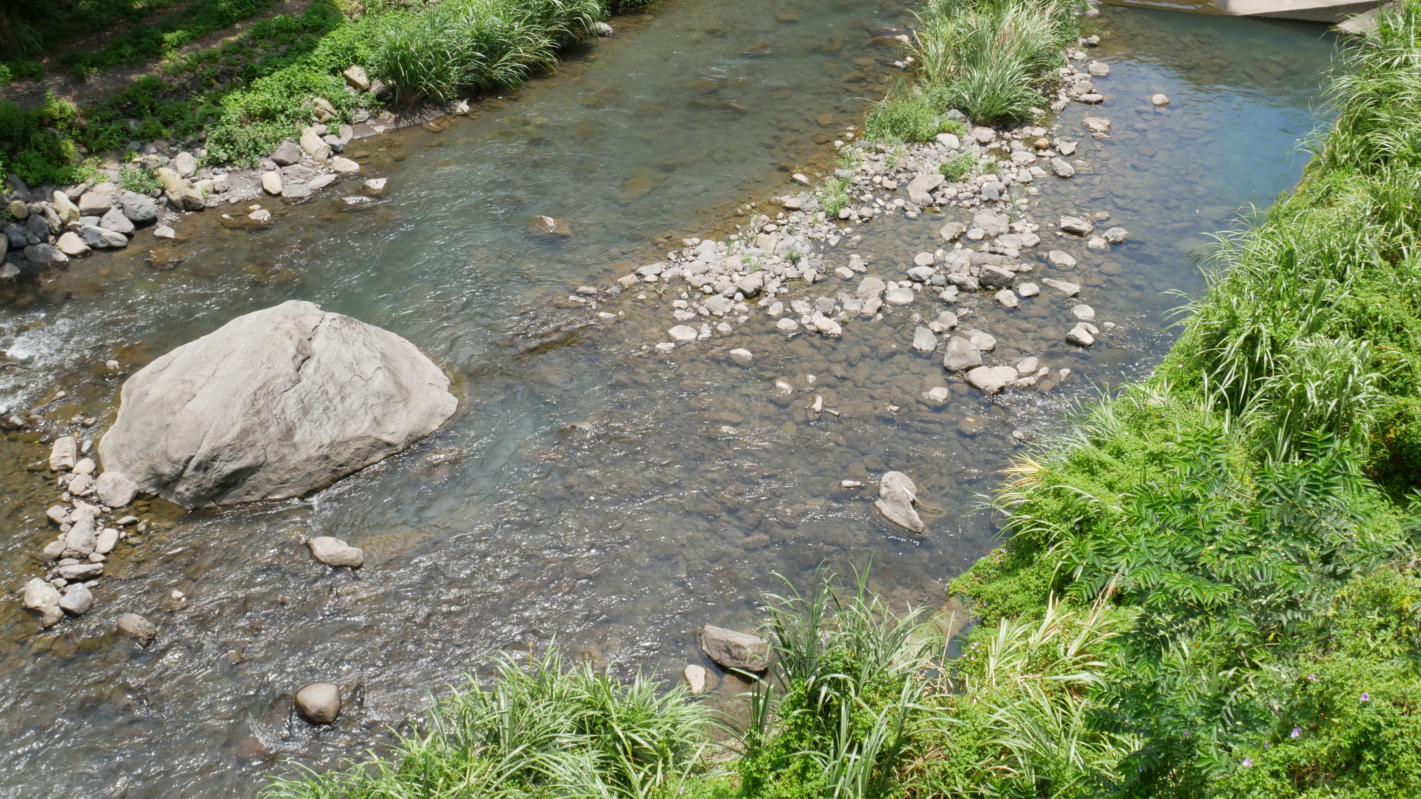 宇內溪溪床，桃園市復興區義盛里